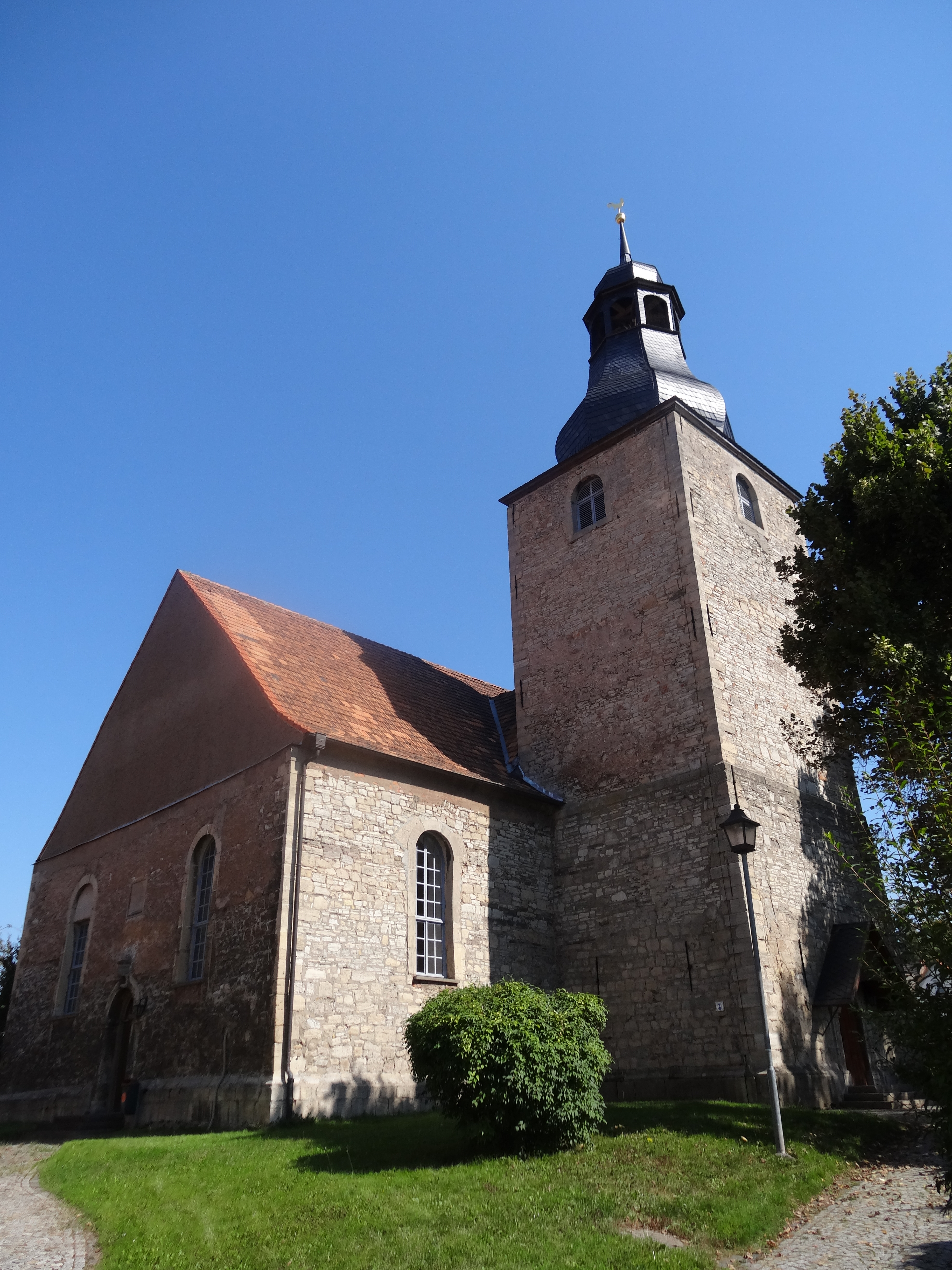 Church in Niedergebra, Thuringia, Germany